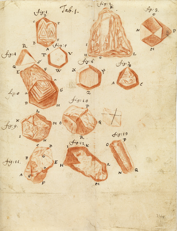 Antonie van Leeuwenhoek’s red chalk drawings of sand grains. From a letter to the Royal Society, 4th December 1703.